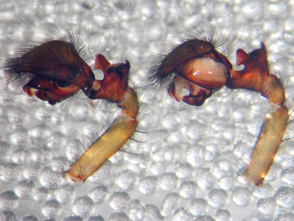 Amaurobius ferox [det. Benedikt & Michael Hohner], Nied, Frankfurt/Main, Germany